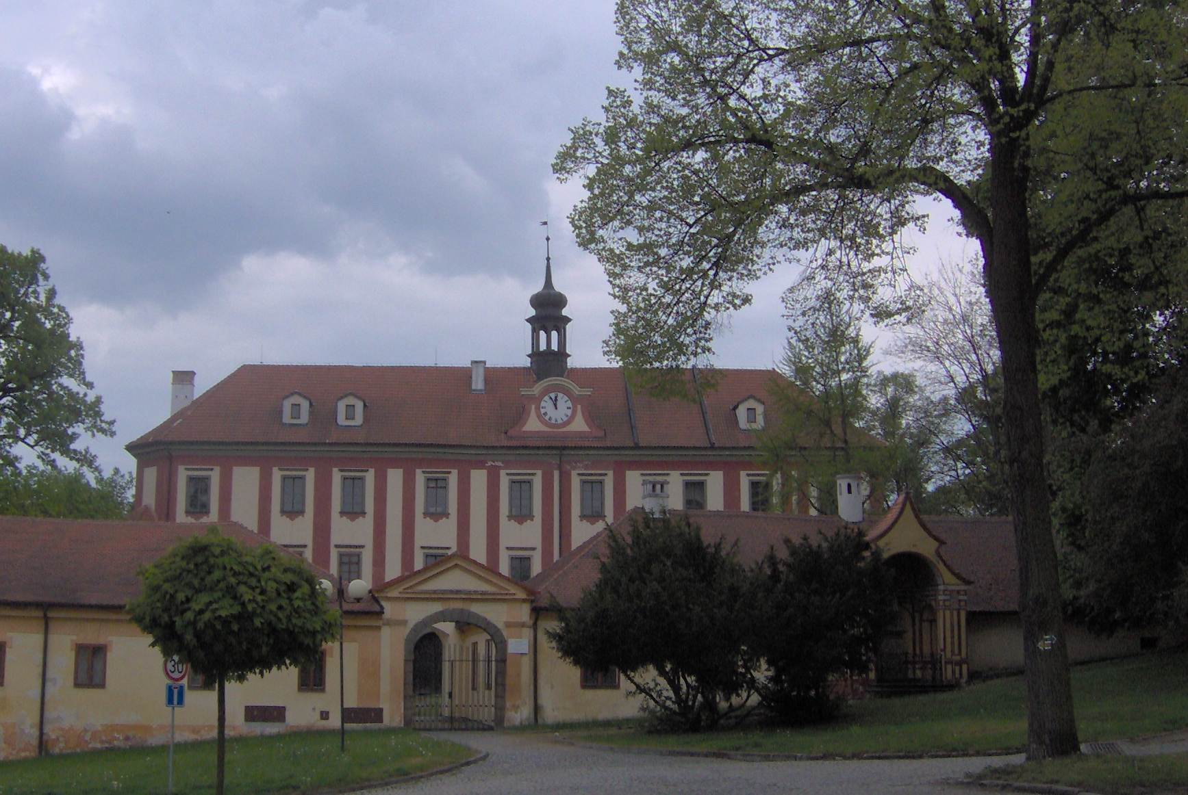 Protivín town in Písek district, South Bohemian Region. Castle on the square.